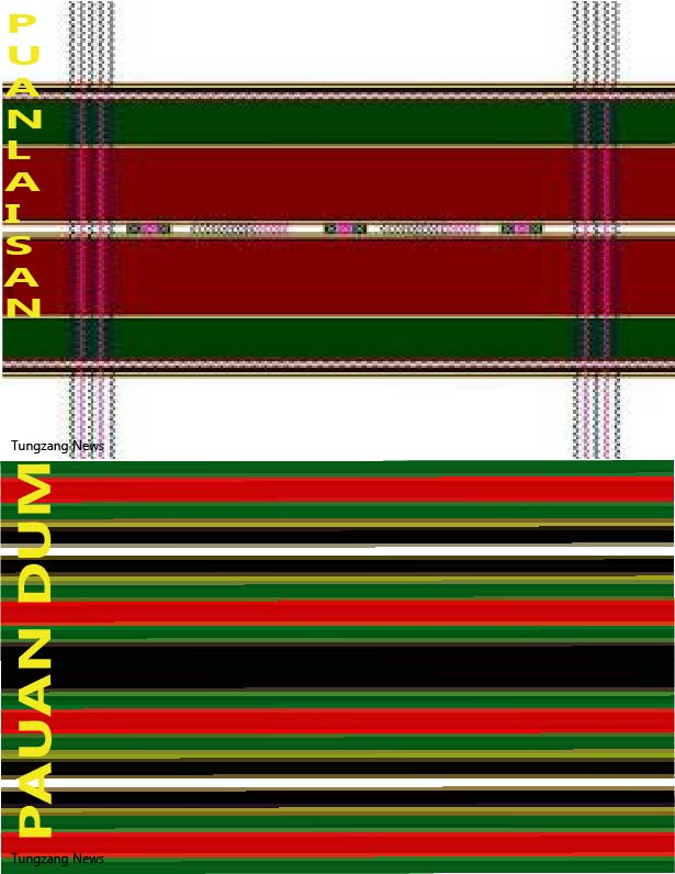 Cultural Dresses